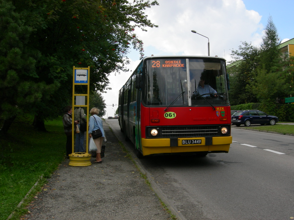 Ikarus 280.70E bus (#061) in Bielsko-Biała, Poland. Year built 1997.